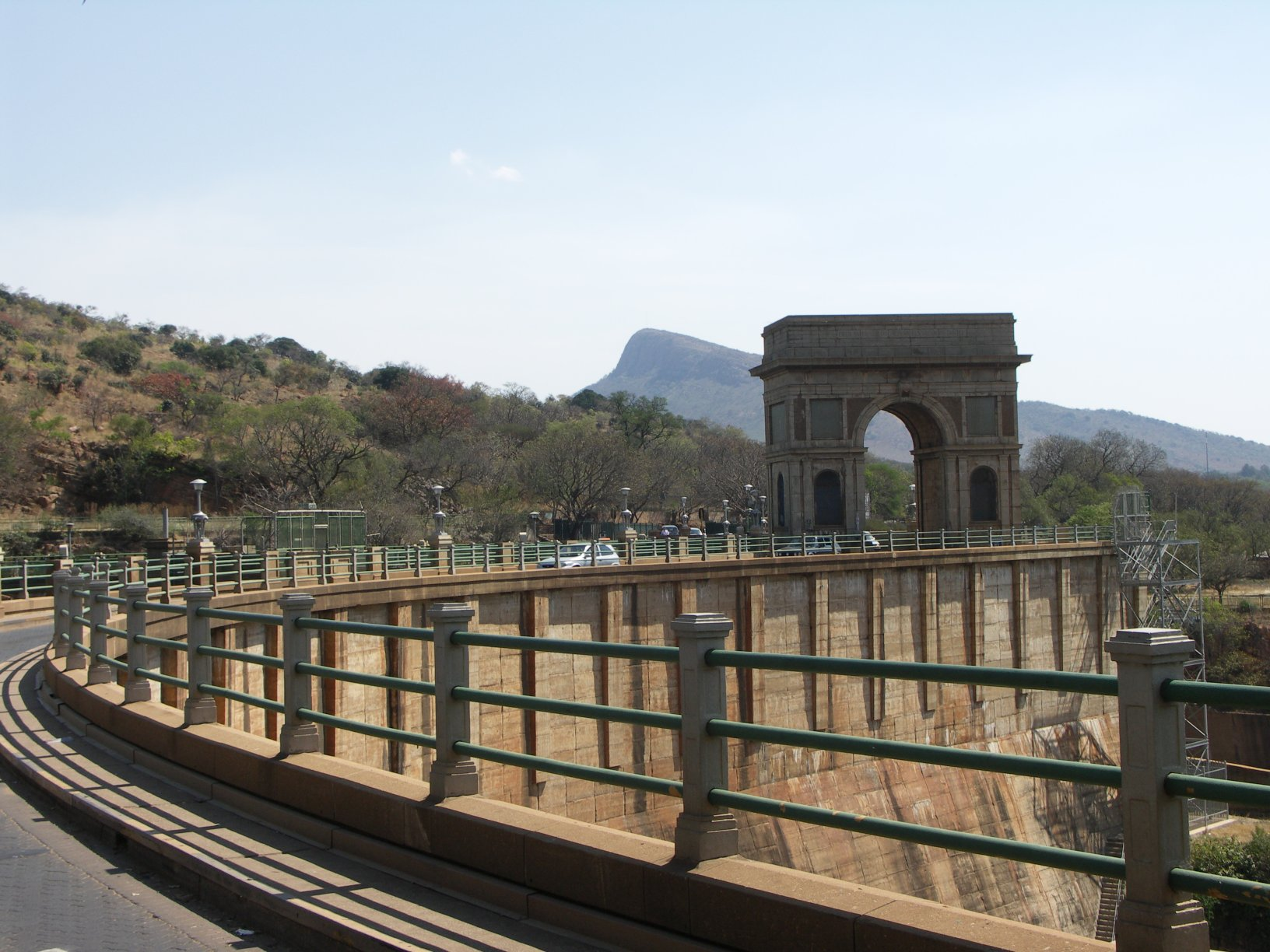 Hartebeespoort Dam, South Africa